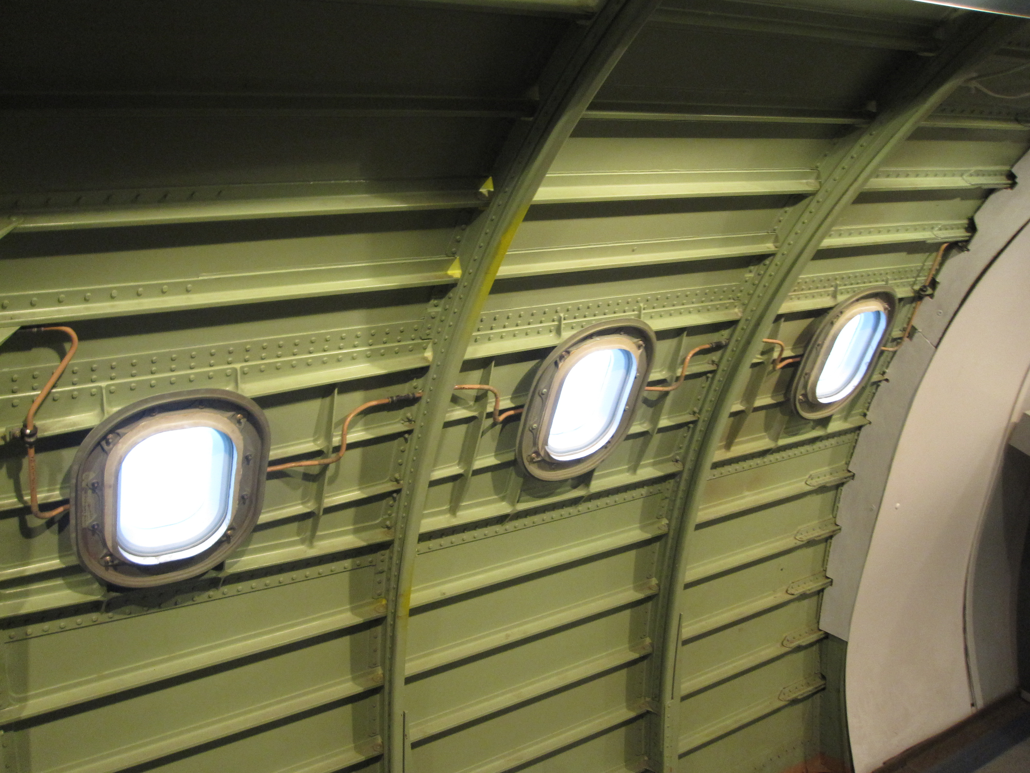 Windows of Concorde G-BBDG at Brooklands museum. Compared to conventional subsonic airliners, the windows are quite small.